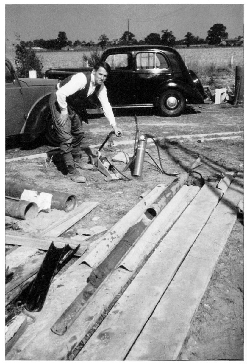 Brian Funnell recovering core samples at the site of the Ludham Borehole, funded by the Royal Society of London, 1959. Image with kind permission Prof R.G. West. The Ludham Borehole was a geological research borehole drilled in 1959 near Ludham, Norfolk, UK. A continuous core sample of late Pliocene and early Pleistocene sediments of the Crag Group was recovered. Analysis allowed biostratigraphic zonal schemes for fossil pollen,foraminifera, mollusca and dinoflagellates to be constructed for horizons of the Red Crag Formation and Norwich Crag Formations, and for these formations to be thus correlated with strata of equivalent age in the North Sea basin and north-west Europe.